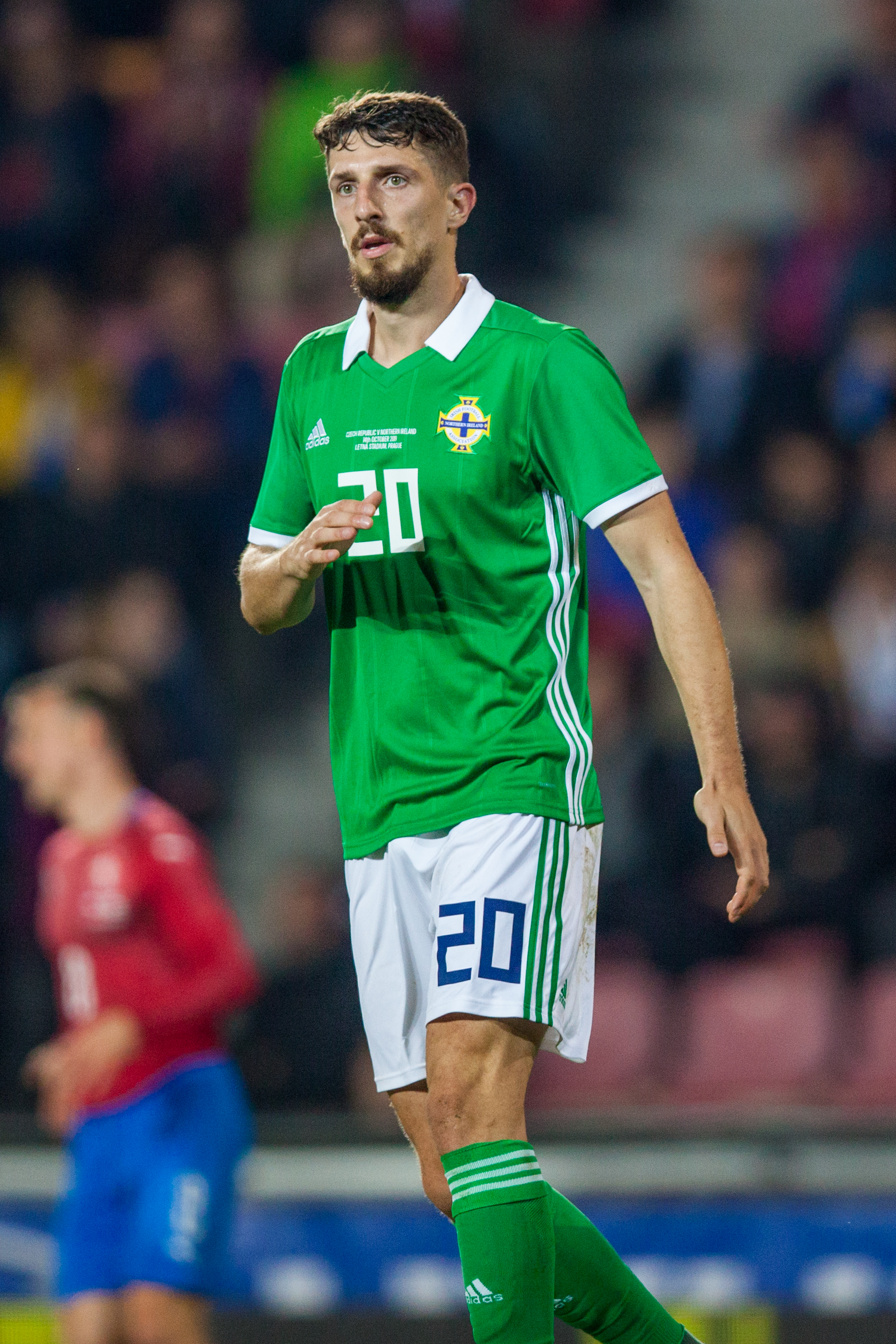 Craig Cathcart in an international friendly match between Czech Republic and Northern Ireland (2:3), Stadion Letná (Prague) 2019-10-14 The making of this work was supported by Wikimedia Austria. For other files made with the support of Wikimedia Austria, please see the category Supported by Wikimedia Österreich. Personality rights warningAlthough this work is freely licensed or in the public domain, the person(s) shown may have rights that legally restrict certain re-uses unless those depicted consent to such uses. In these cases, a model release or other evidence of consent could protect you from infringement claims.